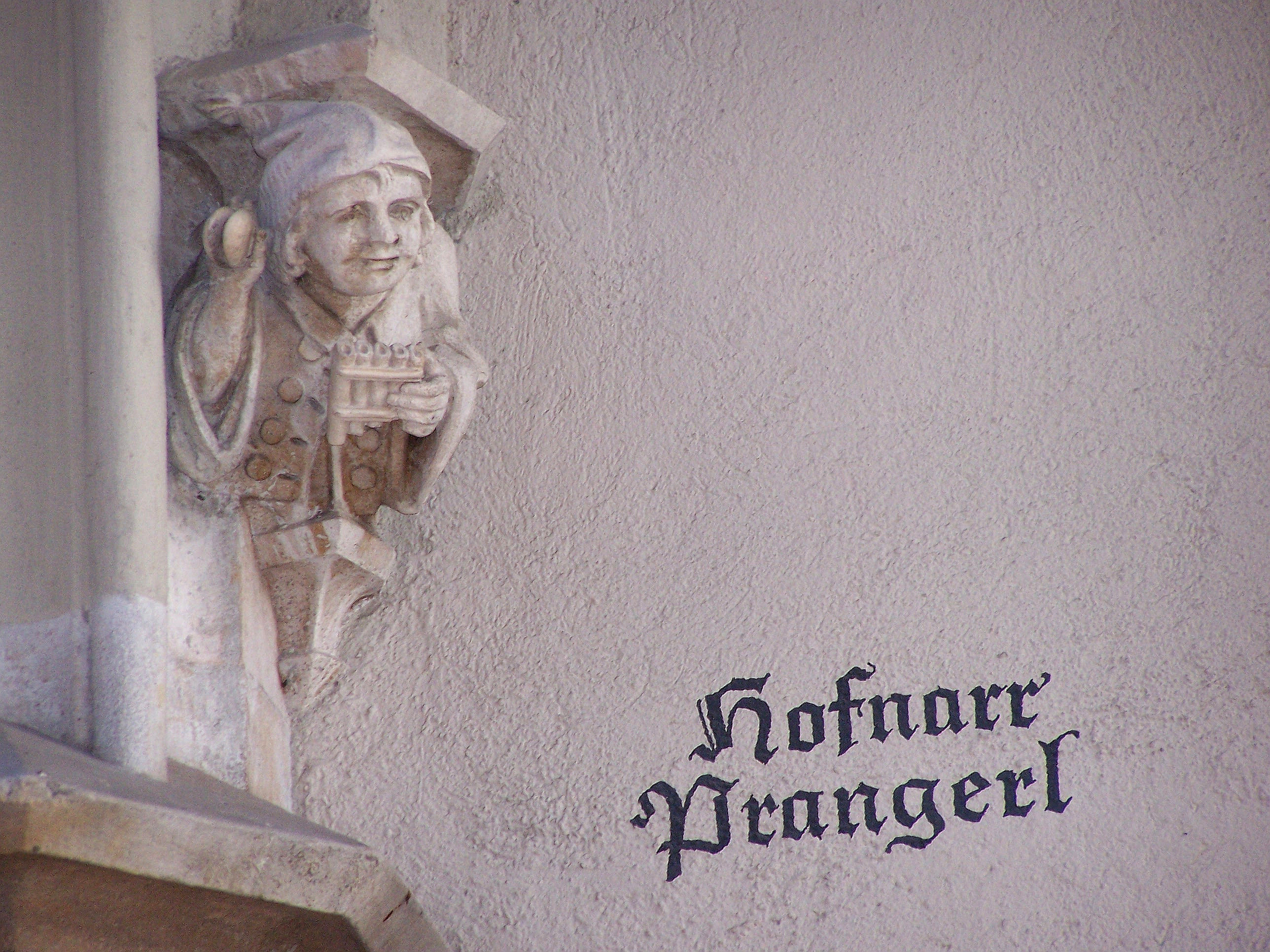 Figure of a jester at the Karlstor in Munich, Germany.